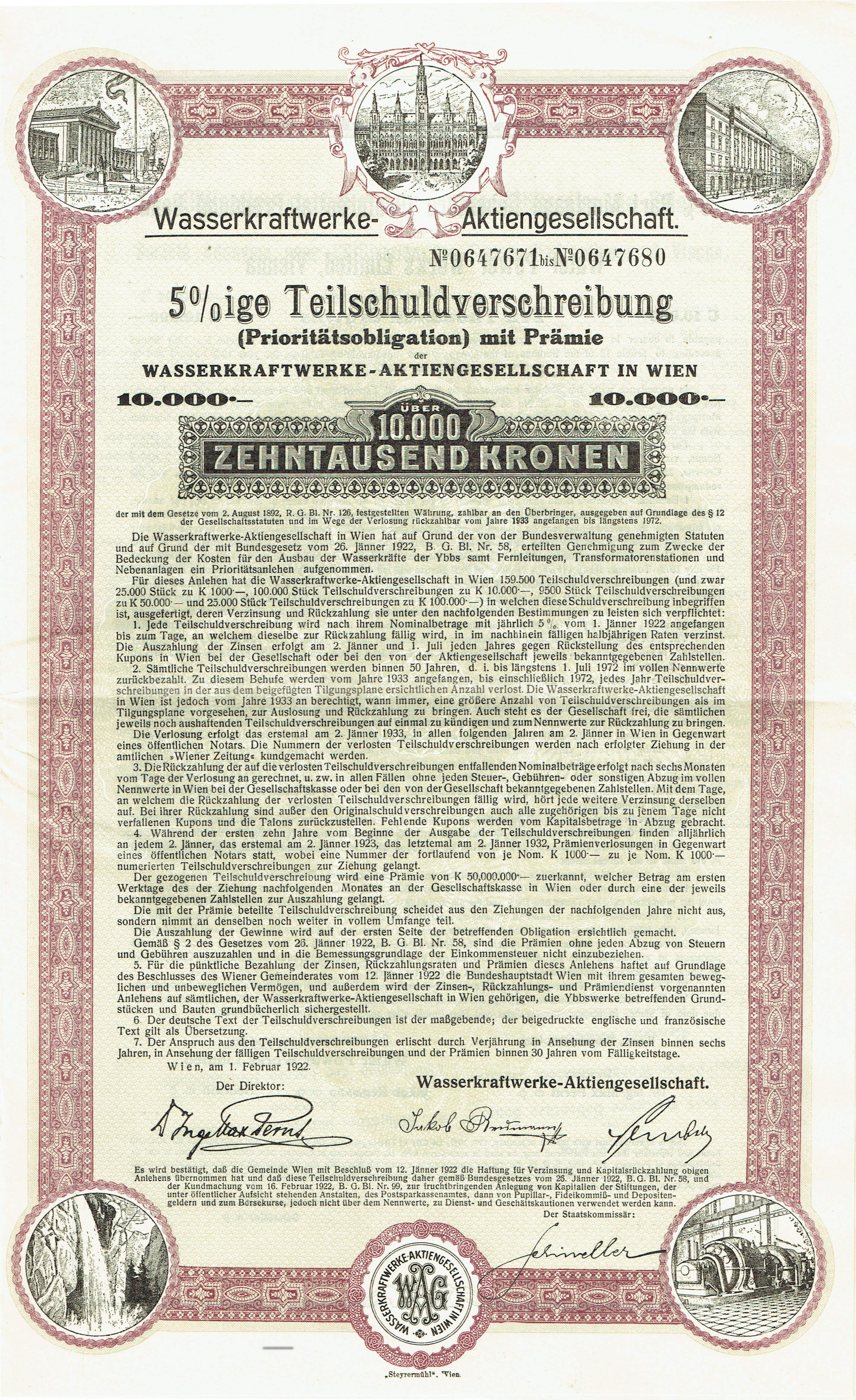 Debenture of the Wasserkraftwerke AG in Wien, issued 1st February 1922